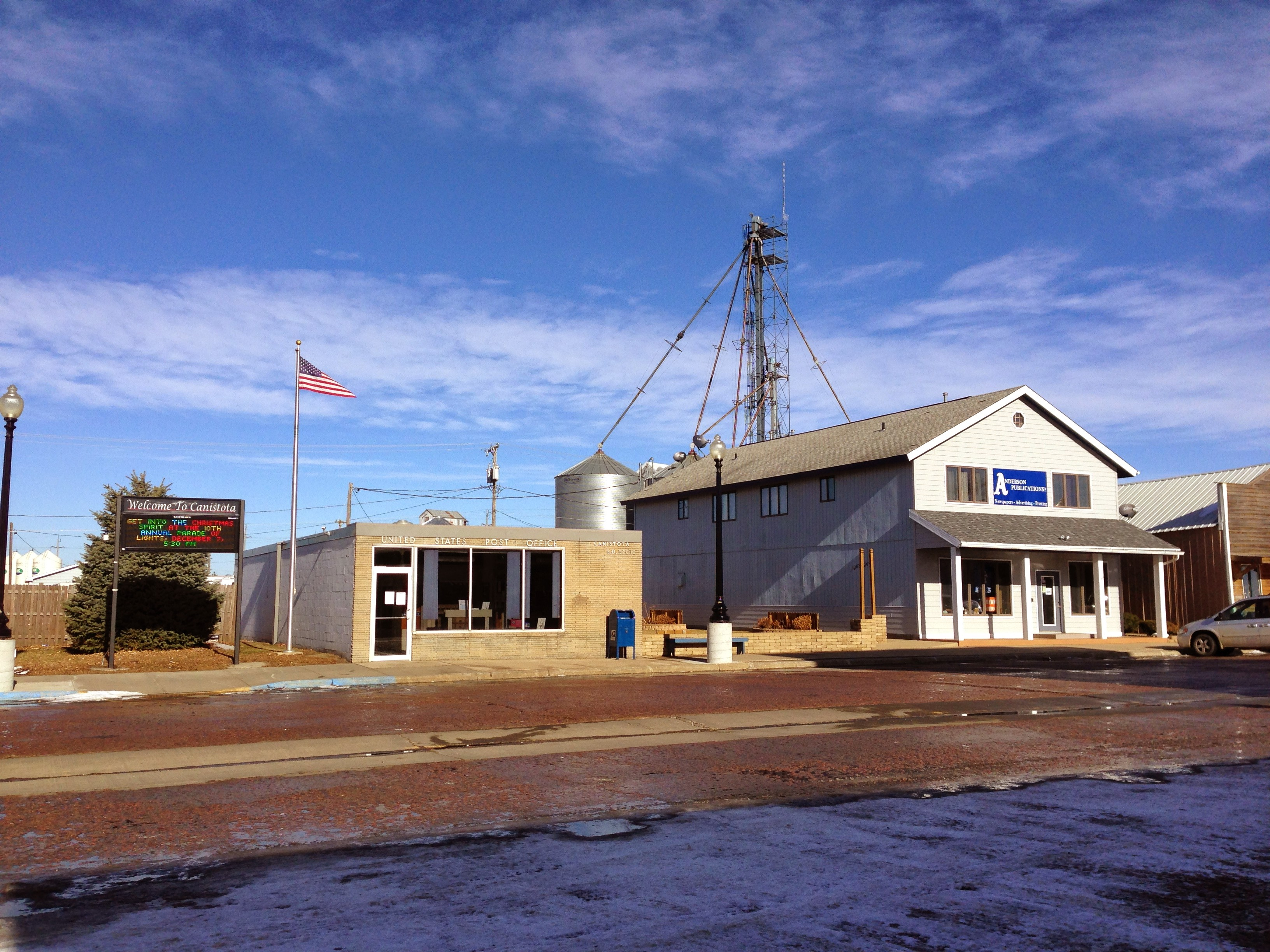 Canistota, South Dakota, around Thanksgiving 2014